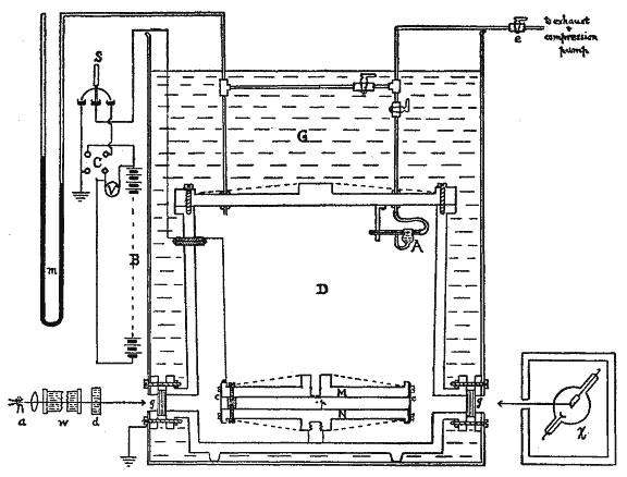 Scheme of Millikan’s oil-drop apparatus - the diagram taken from orginal Millikan's paper (1913).